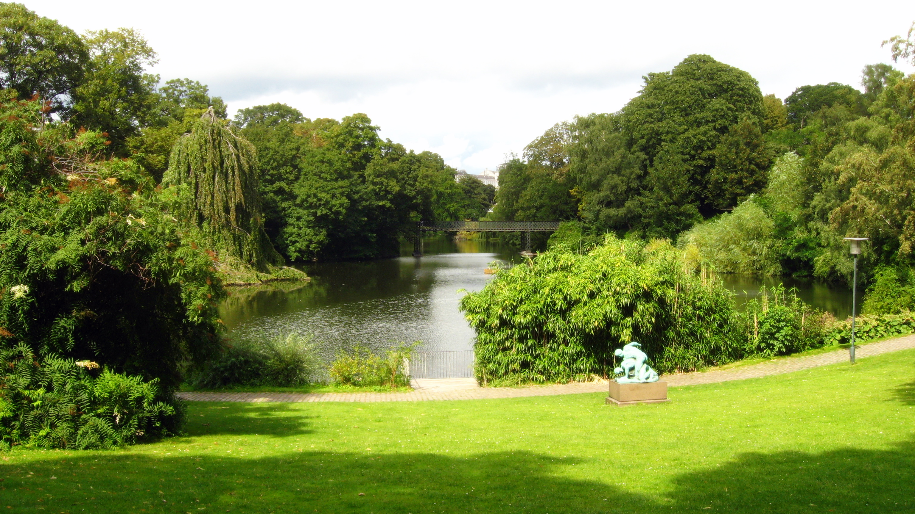 Ørstedsparken - a park in central Copenhagen, Denmark